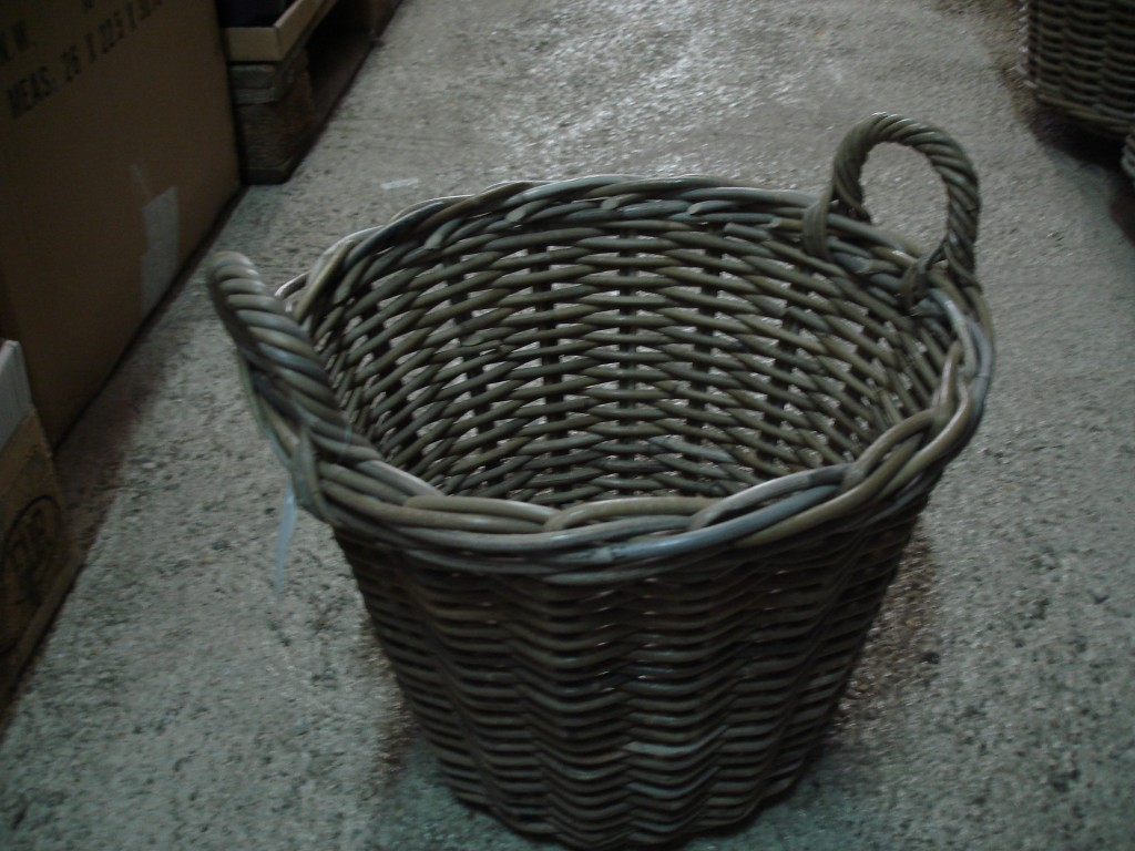 Willow Basket